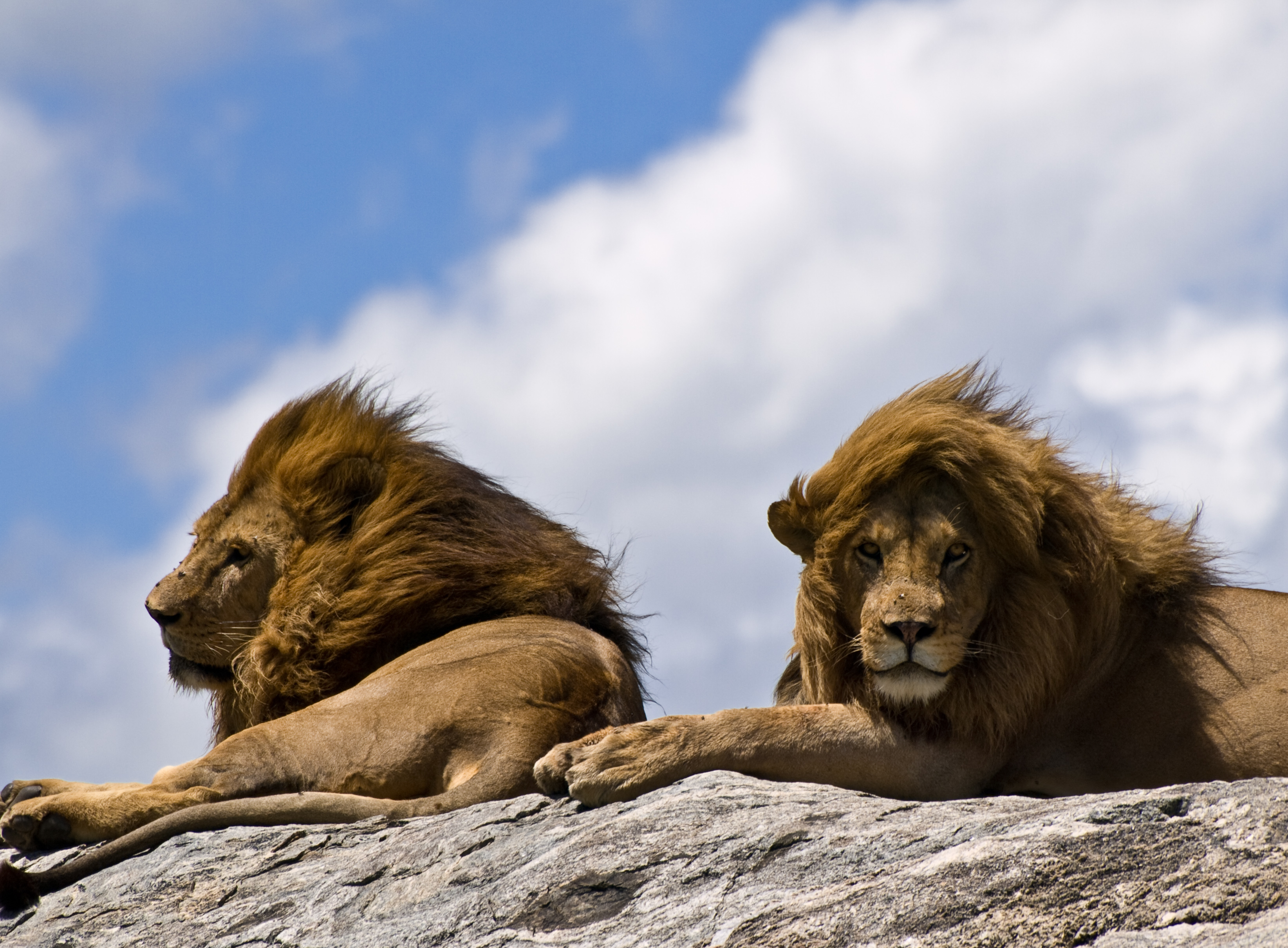 Close-up on a pair of male lions basking in the sun on a rocky outcrop in the Serengeti National Park, Tanzania